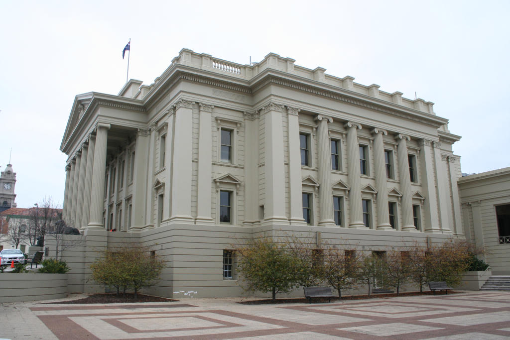 Geelong Town Hall (Victoria, Australia)